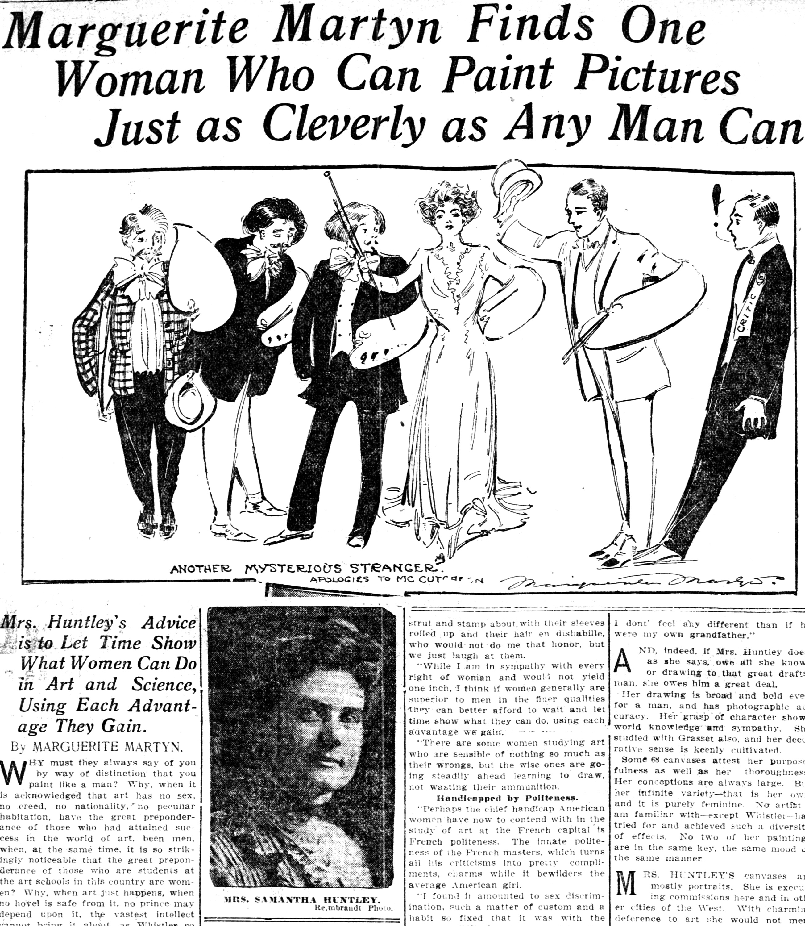 Portion of ‘’St. Louis Post-Dispatch’’ page of November 28, 1909, featuring a headline and an imaginative sketch and part of an article, both by Marguerite Martyn, concerning her interview with artist Samantha Littlefield Huntley. The sketch illustrates three male artists paying homage to Mrs. Huntley, with an astonished “Critic” on the right. A caption notes “Another Mysterious Stranger. Apologies to [Ted] McCutcheon,” whose cartoon “A Mysterious Stranger” was still popular at that time.